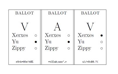 vav voting ballot